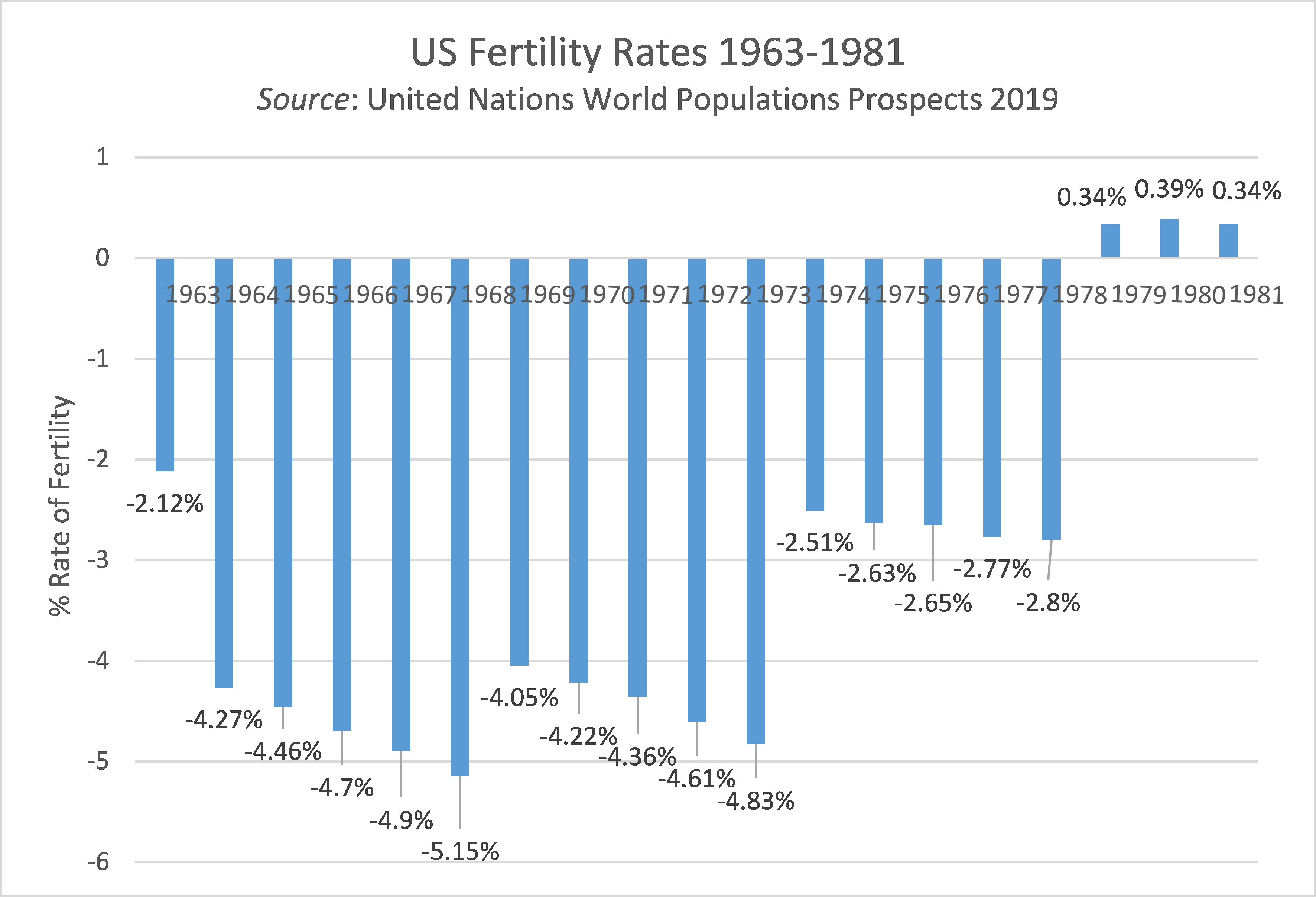 This graph shows US fertility rates declining during the mid 1960s until the early 1980s following the baby boom generation. Data Extract:"